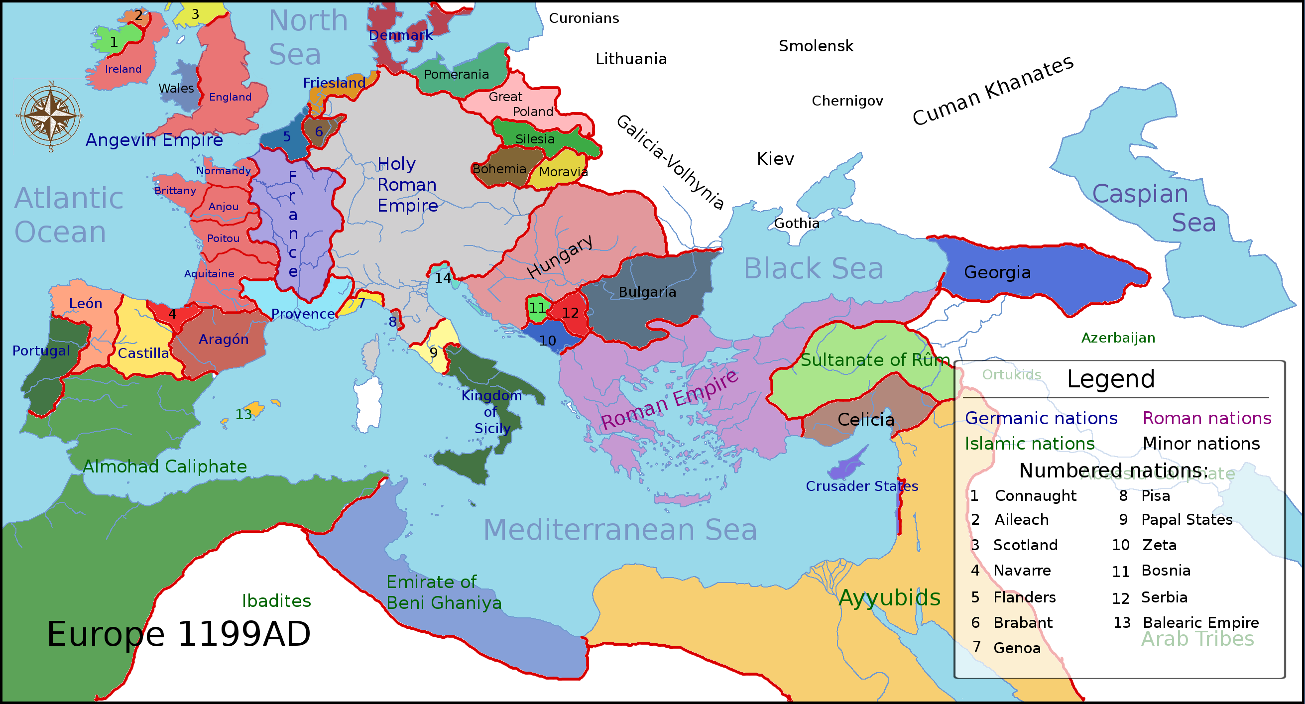 A political map of Europe in 1199AD, with nations categorized by cultural heritage of the rulers.